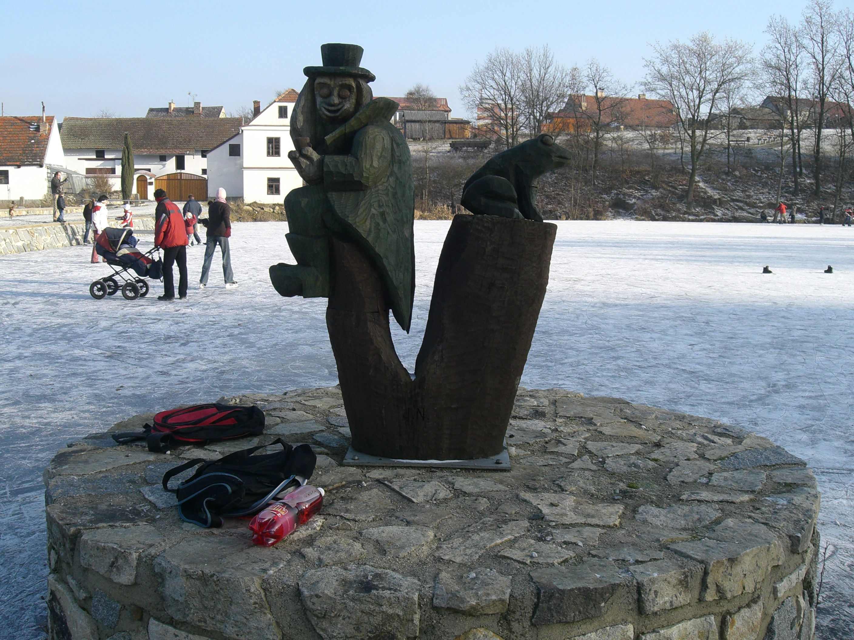 Statue of czech magic person - vodník on Suchanův pond in Milevsko, Czech Republic - OpenStreetMap(Info)